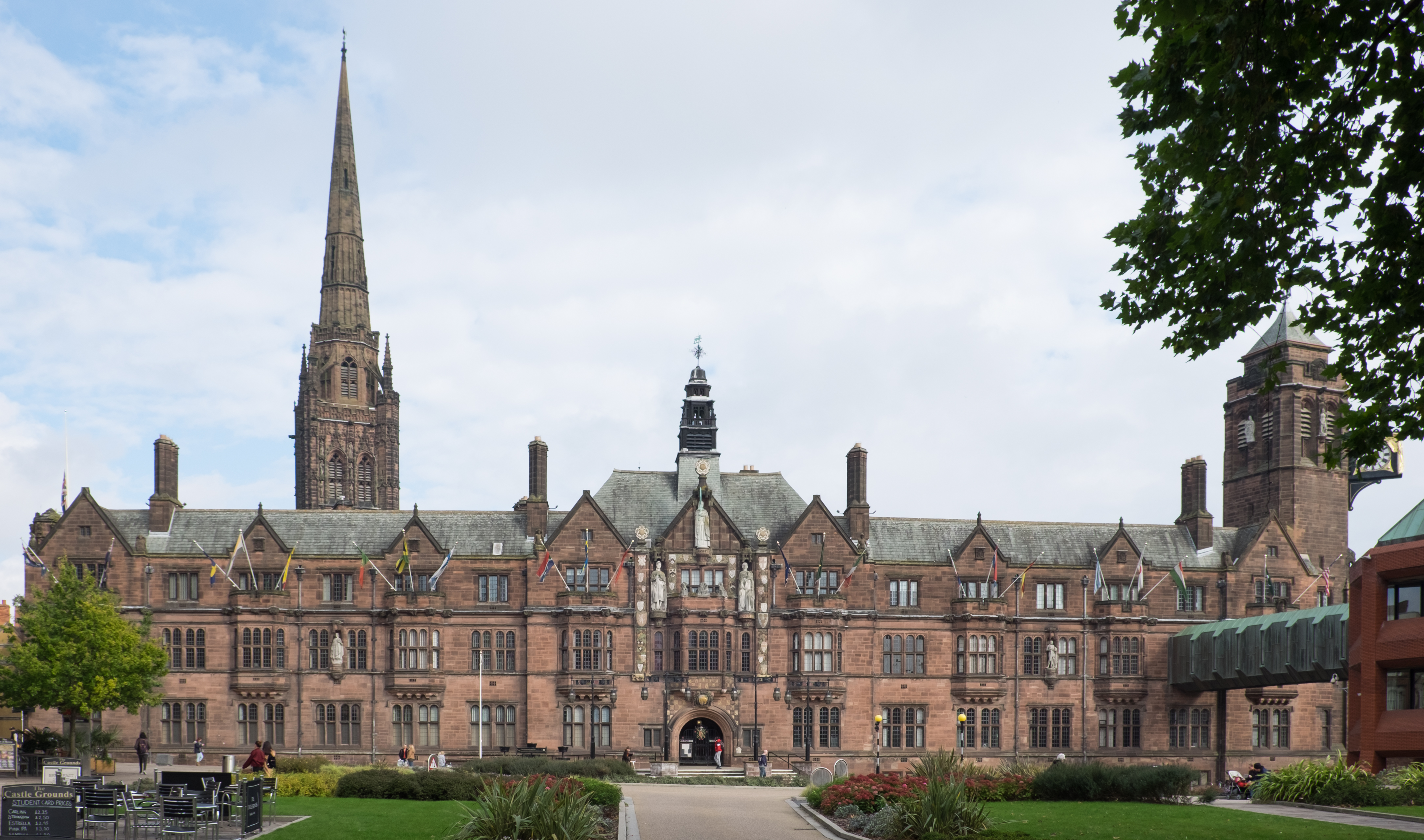 The Council House, Coventry with the 90-metre spire of the war-ruined 14th-century St Michael's Cathedral visible behind. This building, built 1913-17, is a Grade II Listed Building in England.